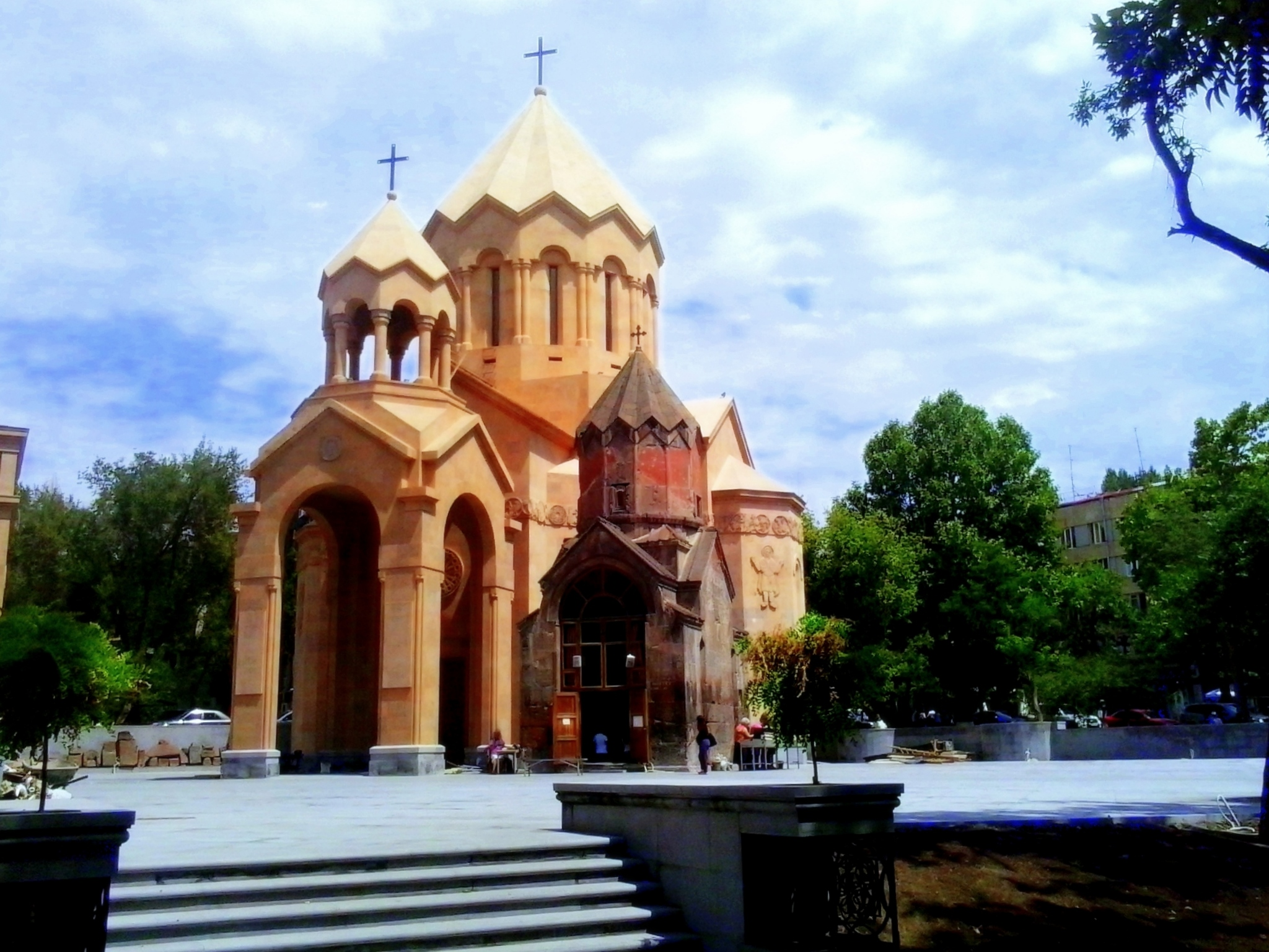 Surp Anna Church Yerevan